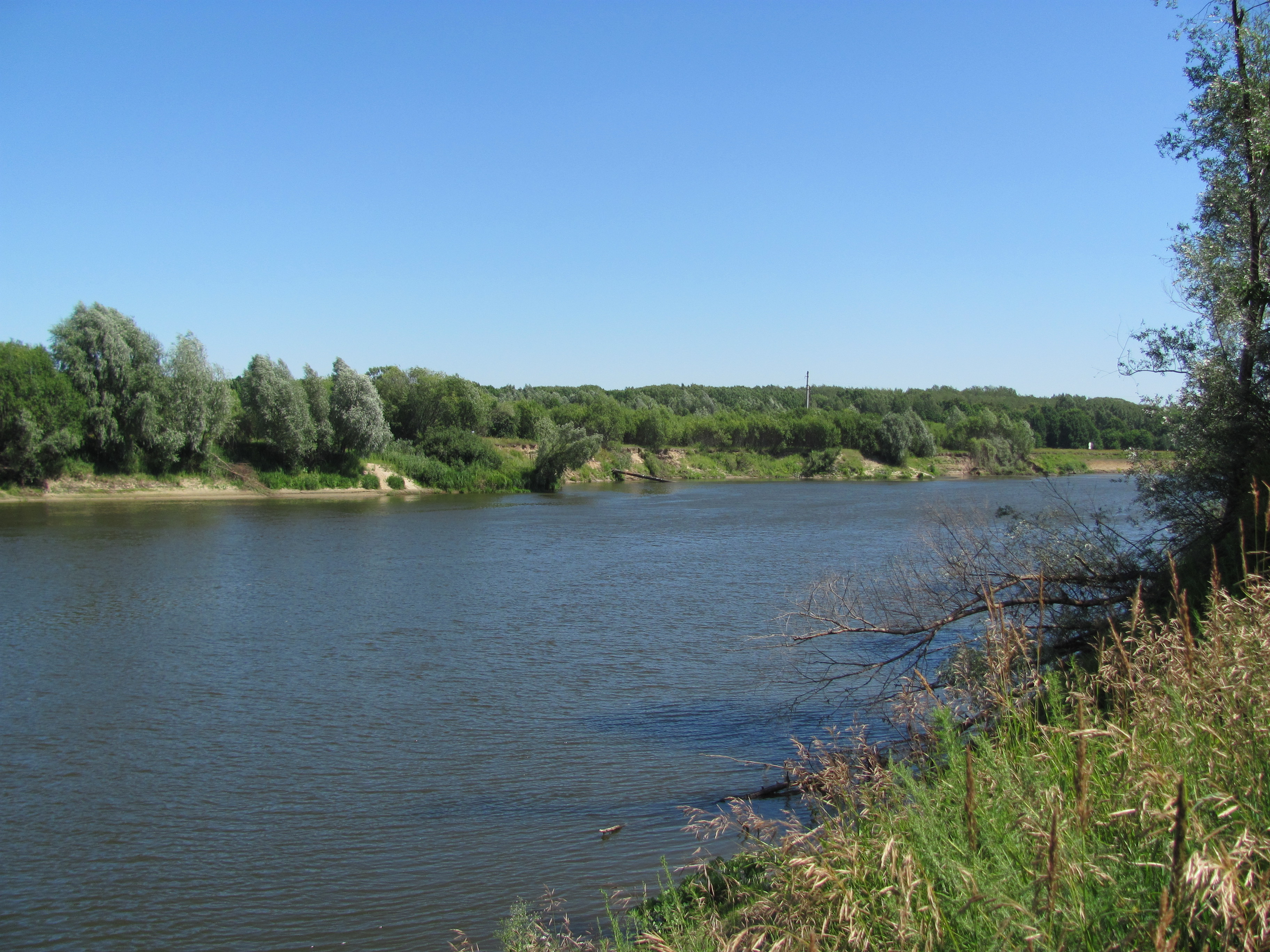 Moksha River in the Yermishinsky District.